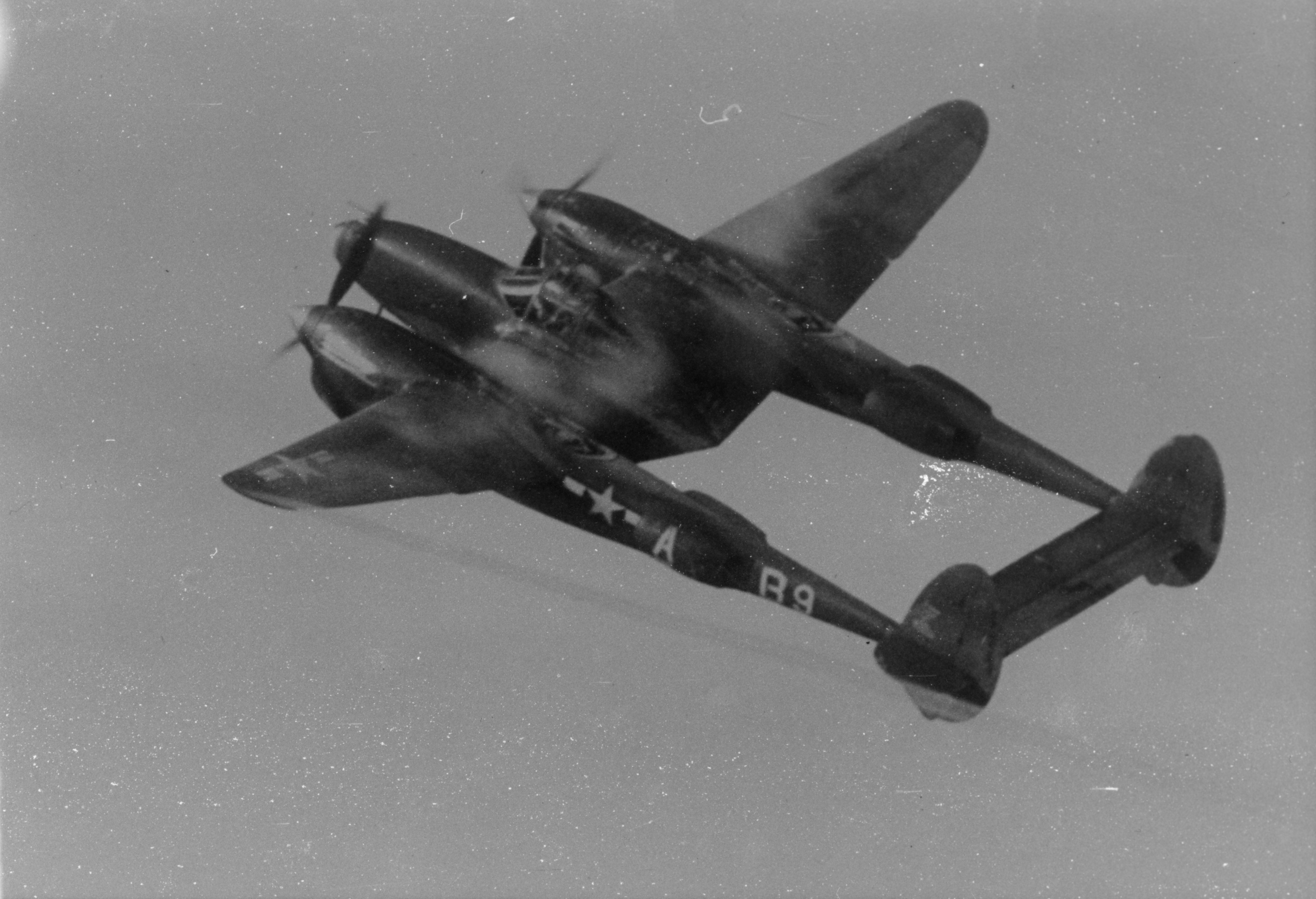 A P-38 Lightning (B9-A, serial number 42-67297) of the 496th Fighter Training Group in flight.